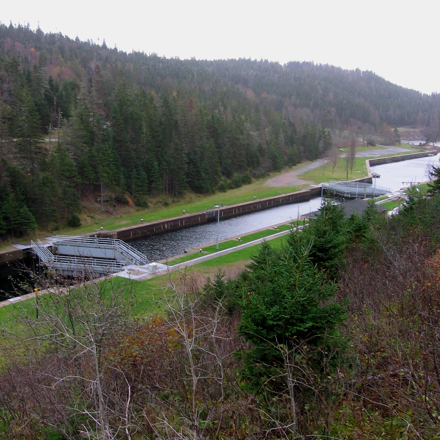 St Peters Canal, St Peters, Richmond County, Nova Scotia. The photo shows the distinctive double-gate system used because each side of the canal has a different tidal regime (Atlantic Ocean and Bras d'Or Lake).